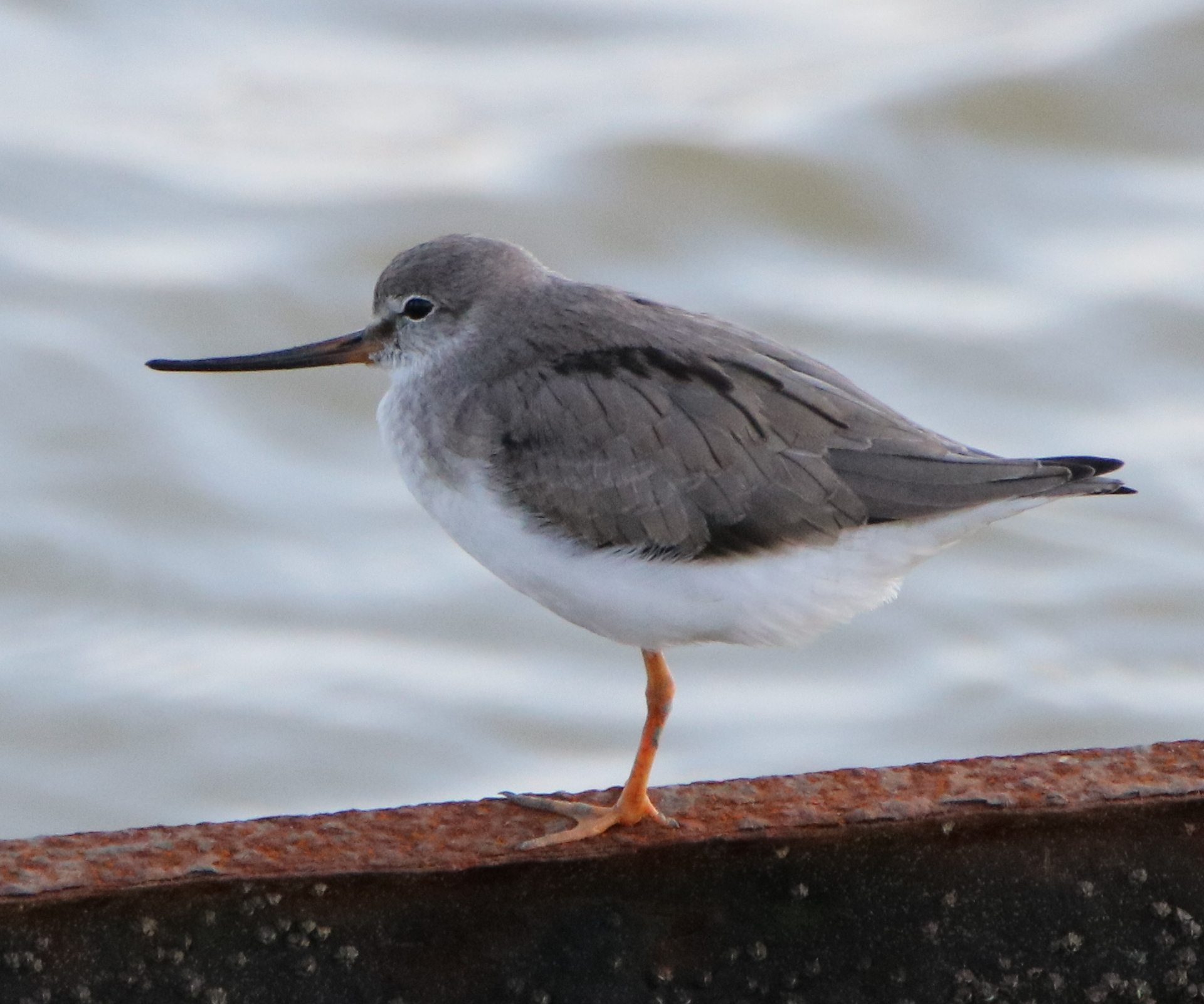 Xenus cinereus restig in Toyohashi, Aichi prefecture, Japan.